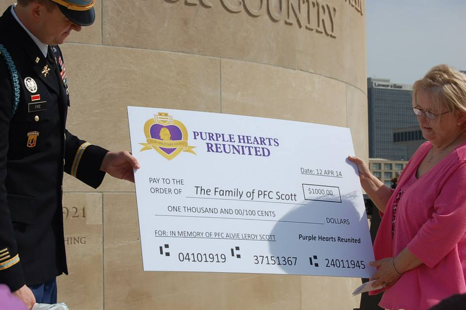 Purple Hearts Reunited founder Zachariah Fike presents a scholarship award to the family of PFC Alvie Scott in 2014.